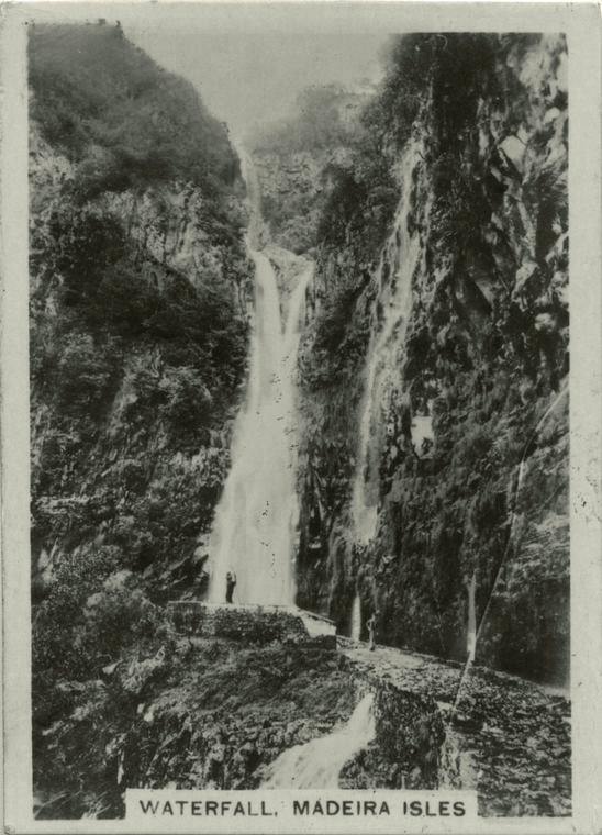 Waterfall, Madeira Isles.